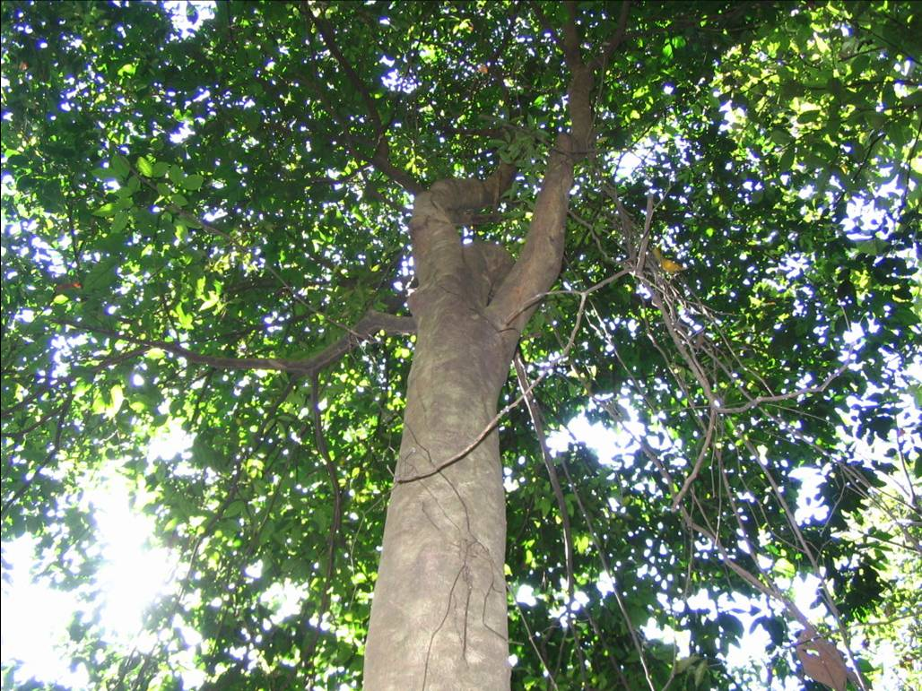 Scorodocarpus borneensis